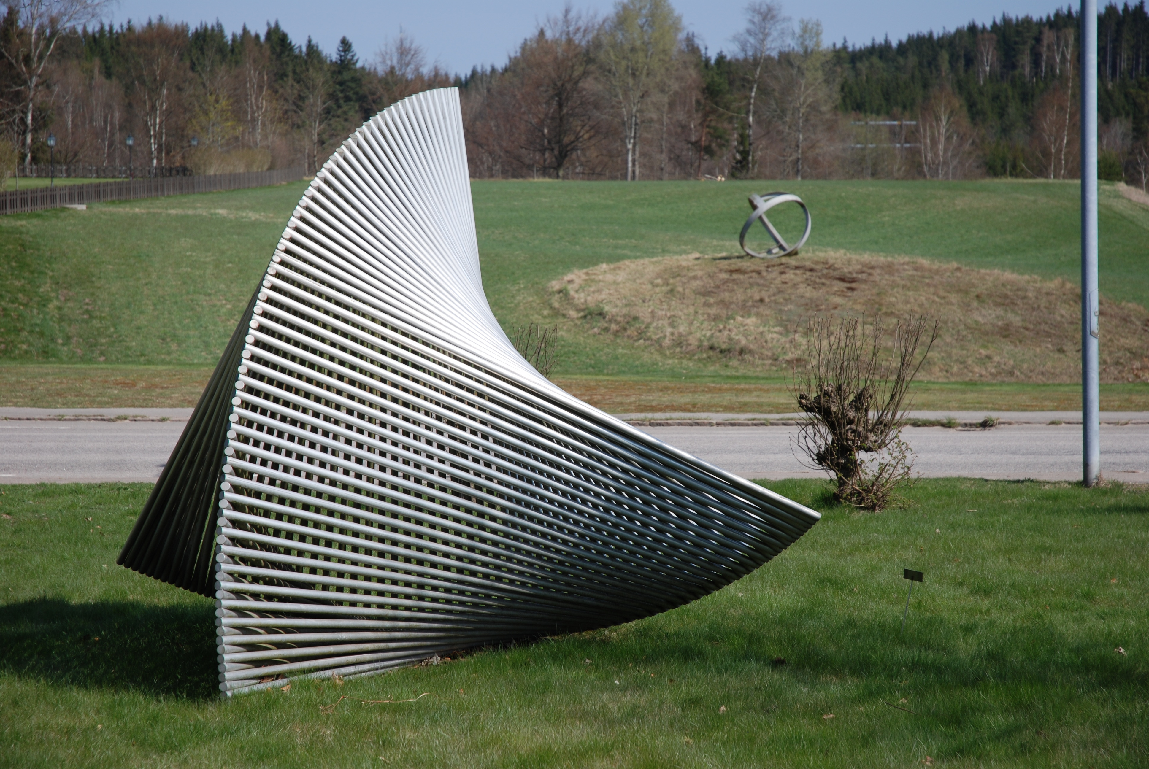 Bertil Herlow Svenssons Sektorns mekanik och Fragmentarisk sfär, Konsthallen Hishult (Hishult Art Gallery), Sweden